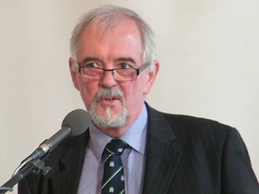 Photo of Mike Gaston